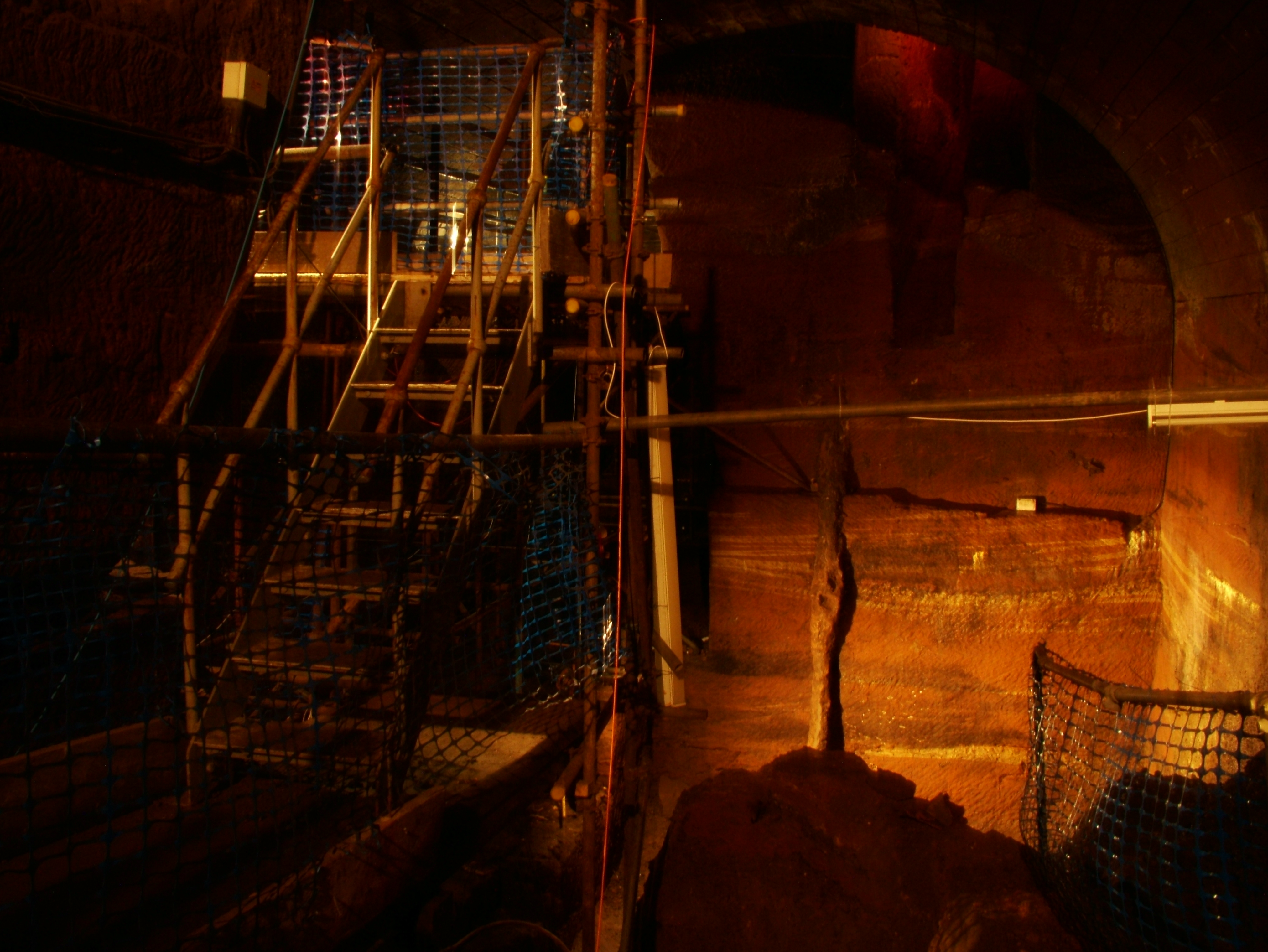 The tunnel sides and arch constructed out of sandstone blocks in the Williamson Tunnels